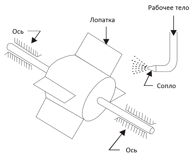 A scheme of an action turbine with text in Russian. Derived from File:Impulsturbine.svg